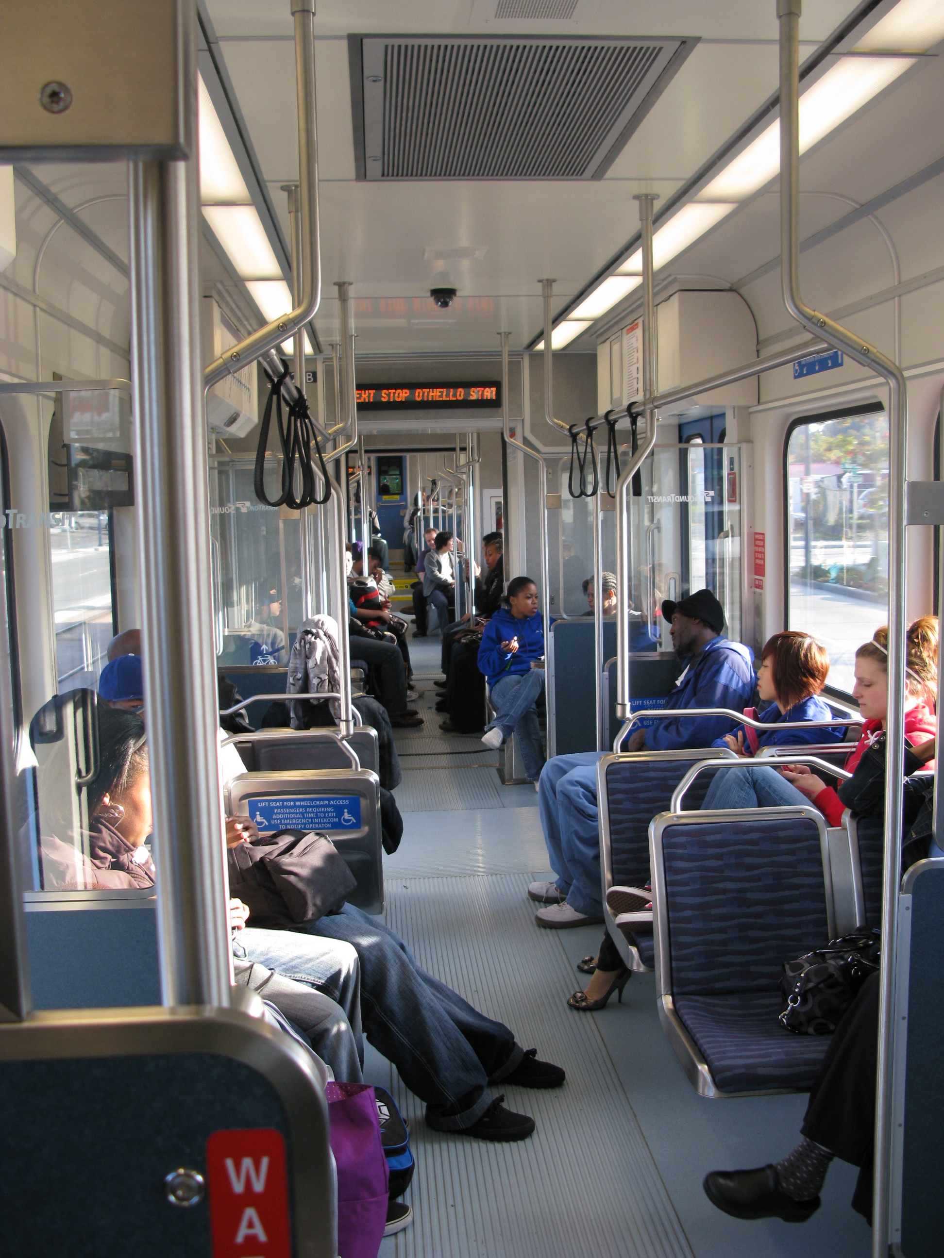 Scene onboard a southbound Central Link train in the evening.